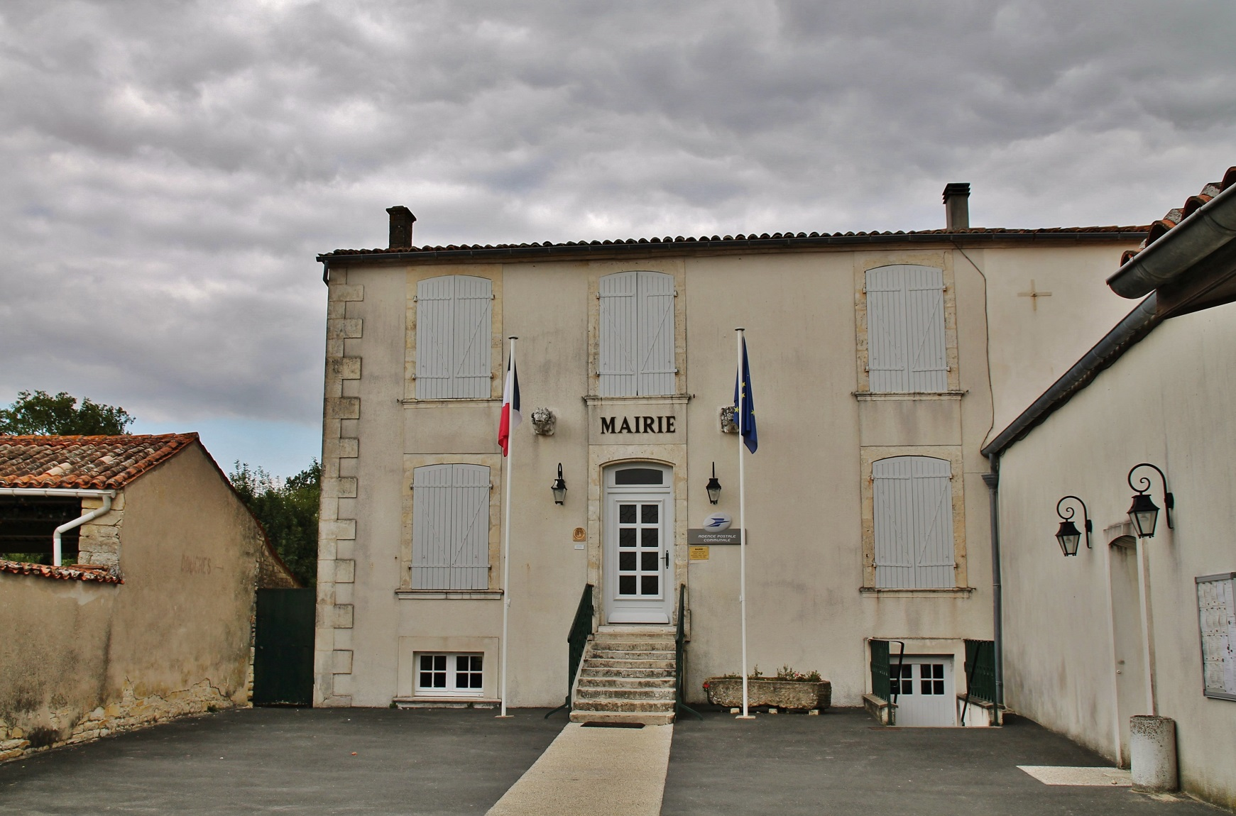 La Mairie